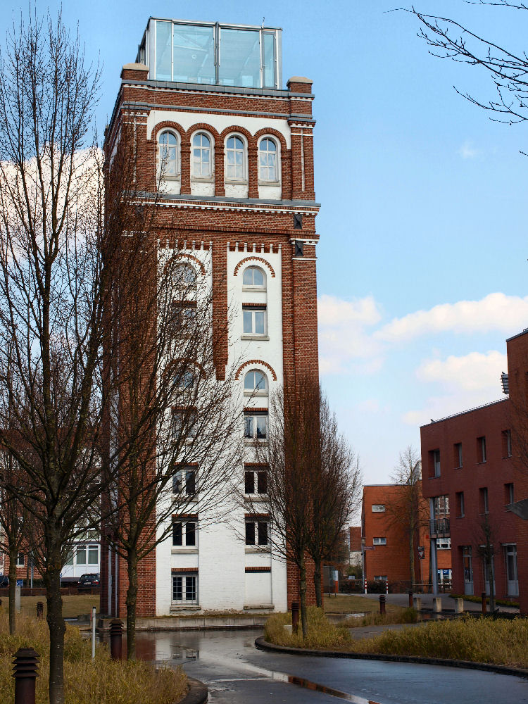 Nordhorn, Povelturm